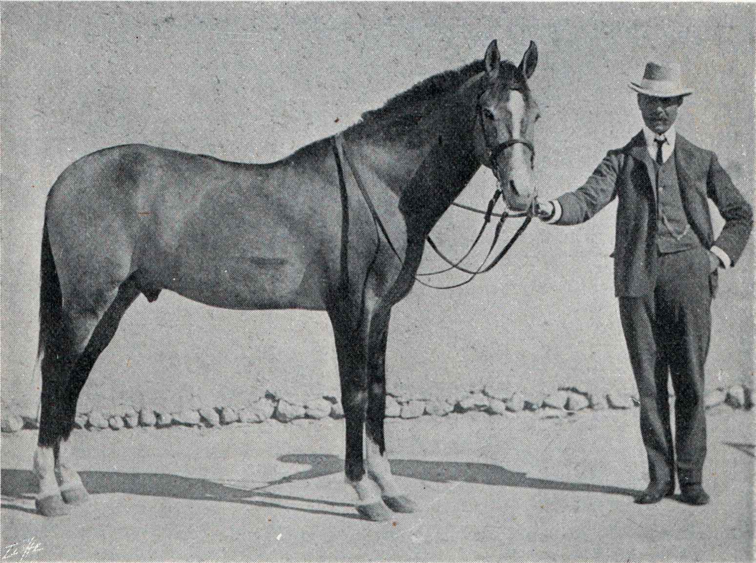 Yamud Horse, also known as Iomud Horse, is a horse breed located Turkmenistan.